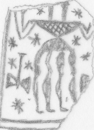 fragment of a vessel of the Heraion of Argos with a double figure Athens, National Museum argive, late geometric II drawing